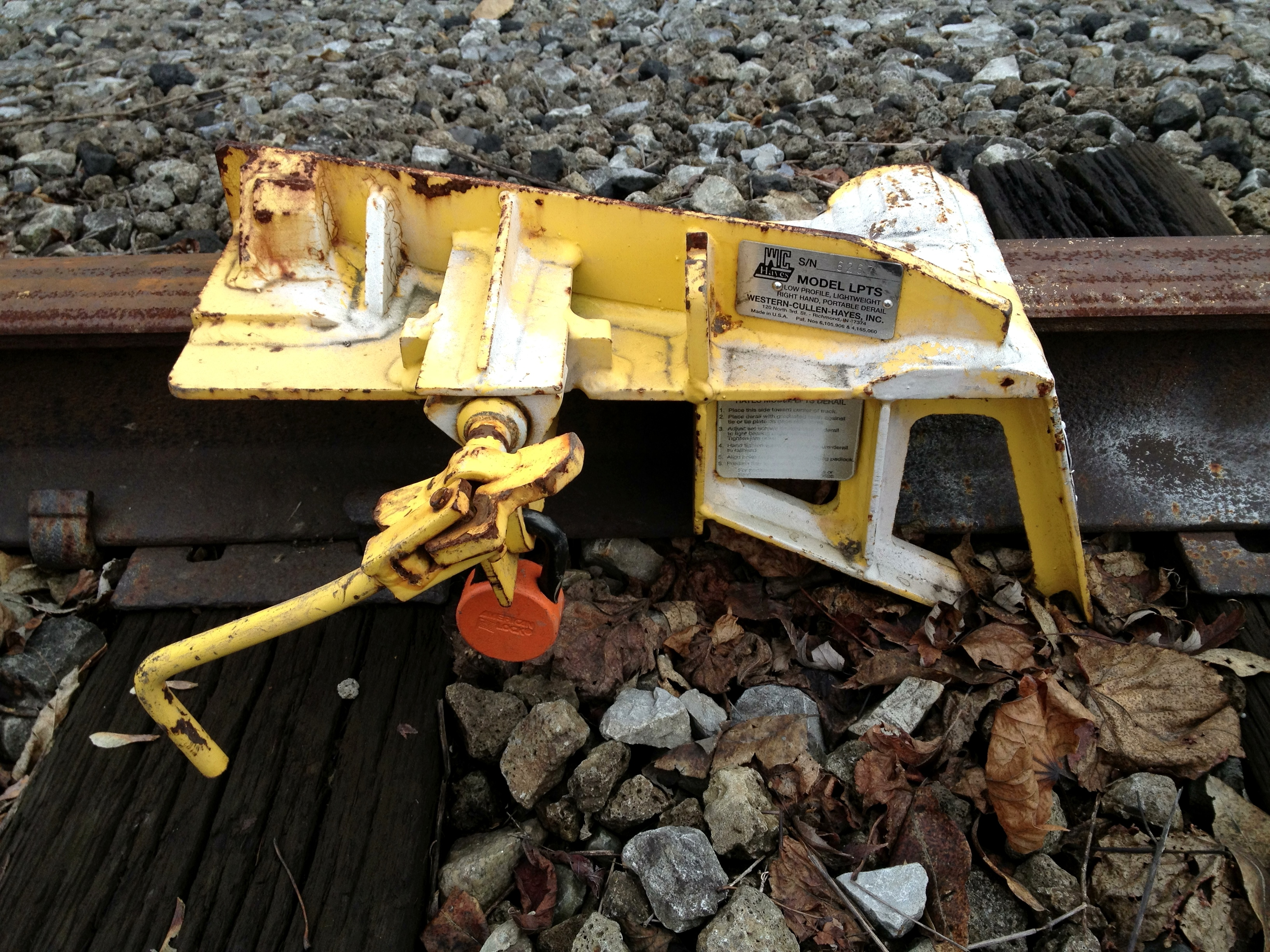 Low Profile, Lightweight, Right Hand, Portable Derail